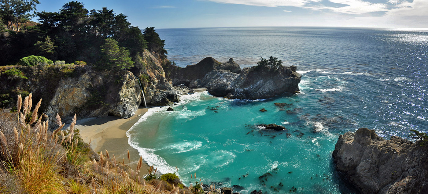 Panoramic view of the beach at Julia Pfeiffer Burns State Park.